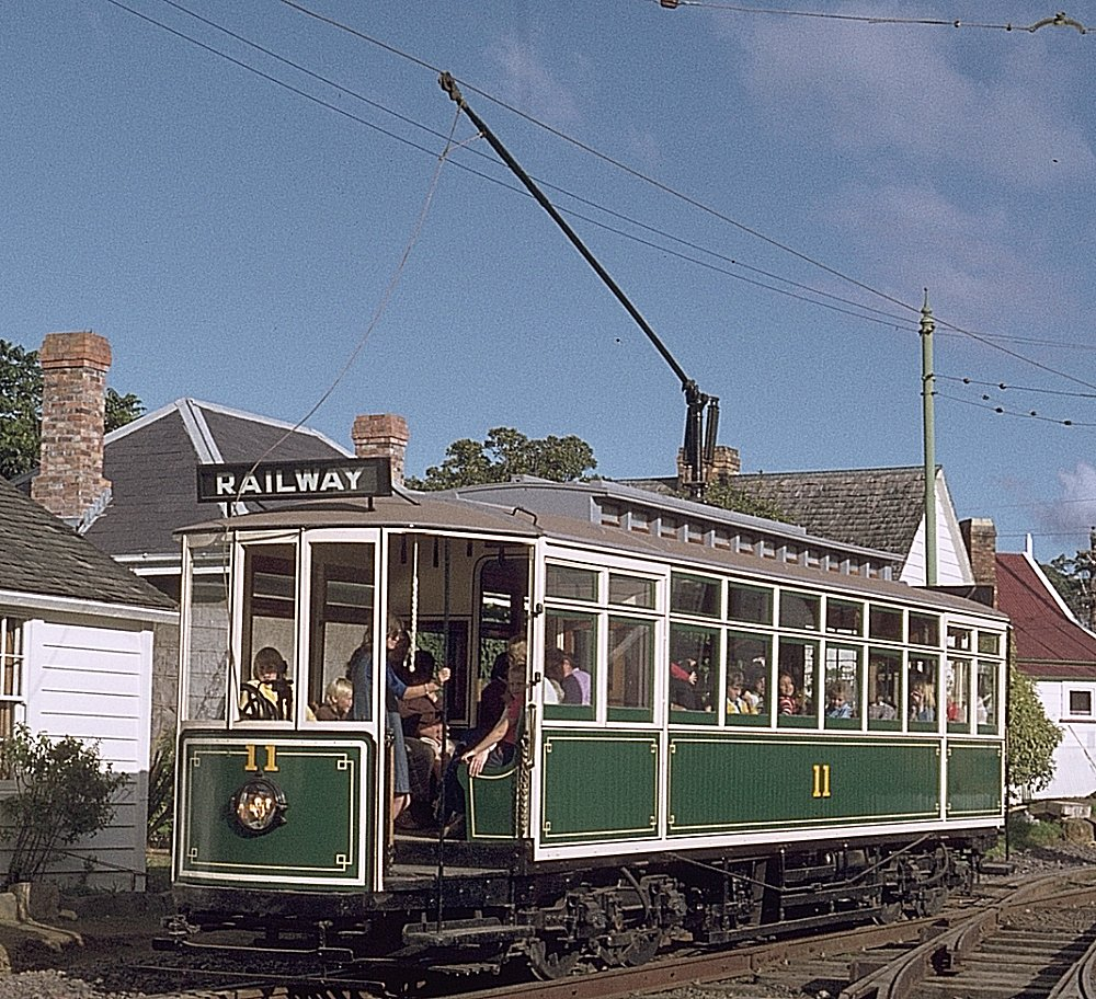 Auckland Tramways tram 11 at MOTAT